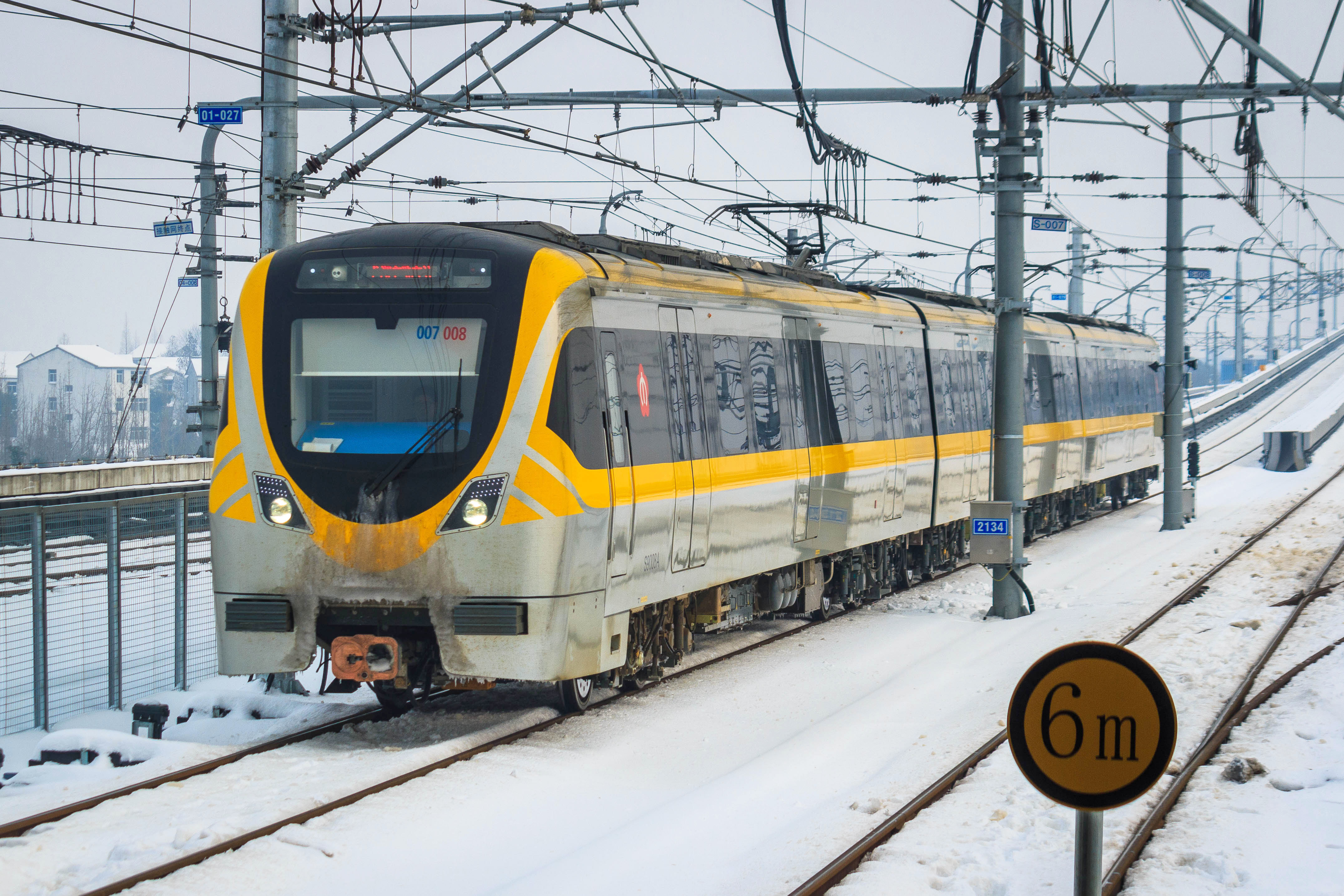 A train of Nanjing Metro Line S9 is approaching XIANGYULUNAN station, which is the southern terminal station.